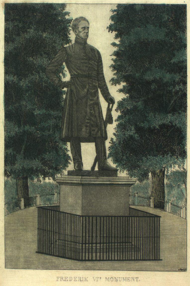 The oldest existing depiction of the statue of Frederick VI in Frederiksberg Garden in Copenhagen, Denmark